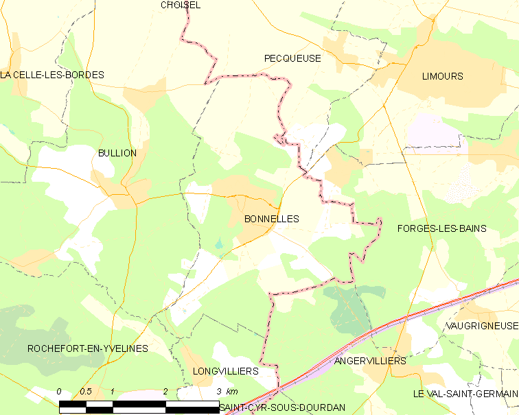 Map of French municipality Bonnelles